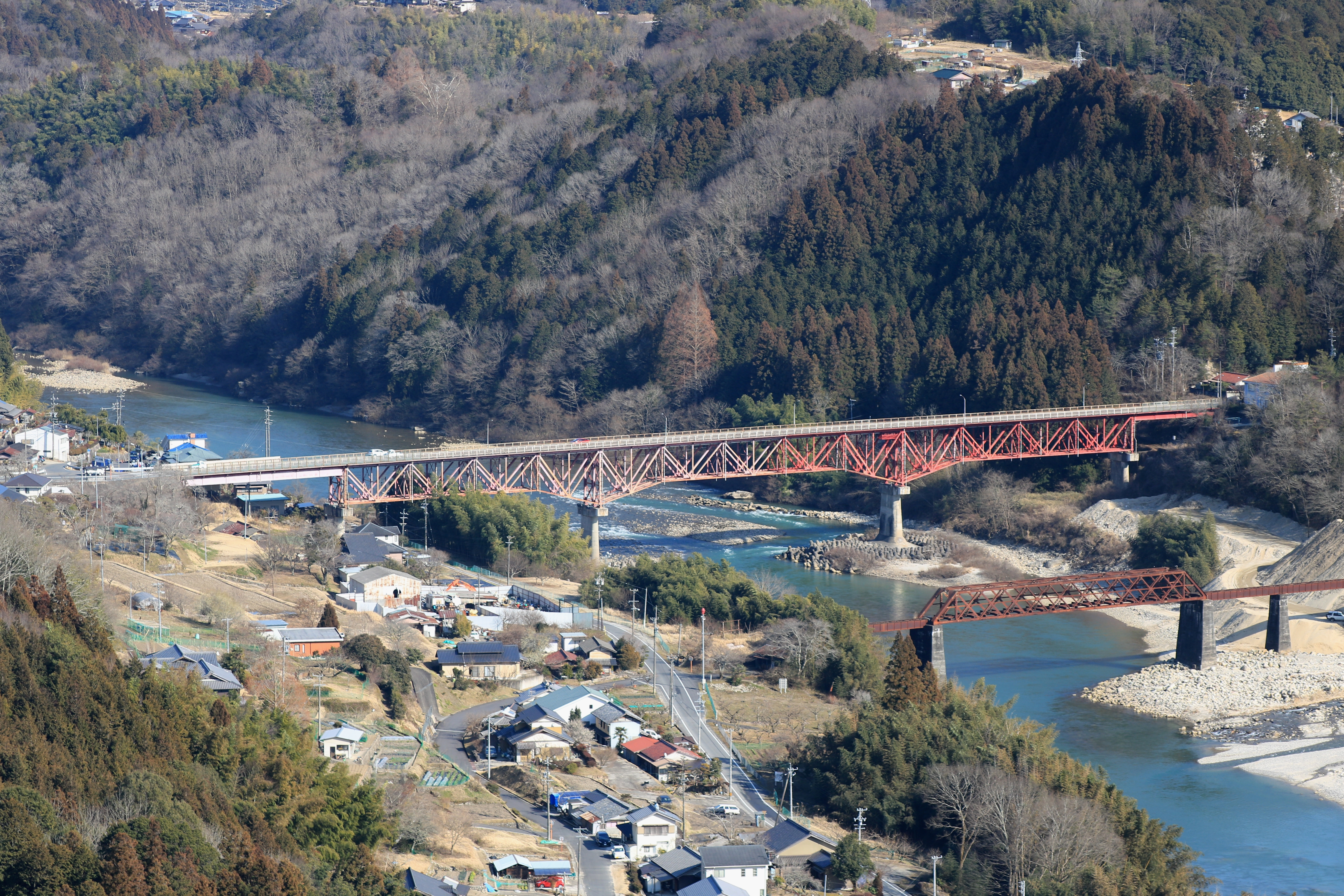 Gyokuzo Bridge over Kiso River seen from Naegi Castle in Nakatsugawa, Gifu prefecture, Japan.